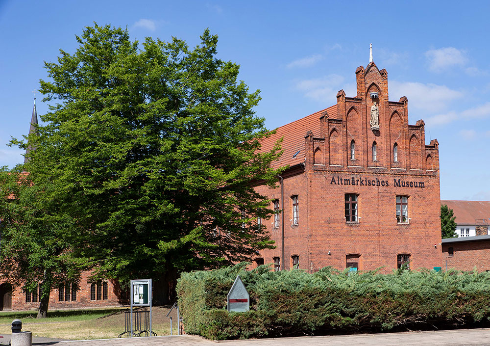 Stendal, Schadewachten 48, Saxony-Anhalt, Altmärkisches Museum, former Monastery St. Katherina